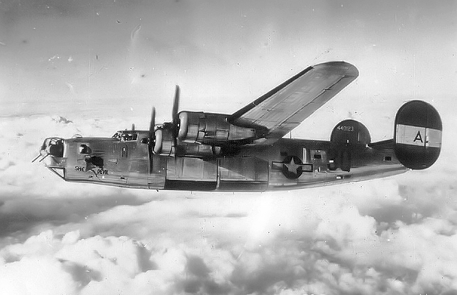 B-24 with nose art "She Devil" Consolidated B-24D-30-CO Liberator 42-40123 in flight, 1944